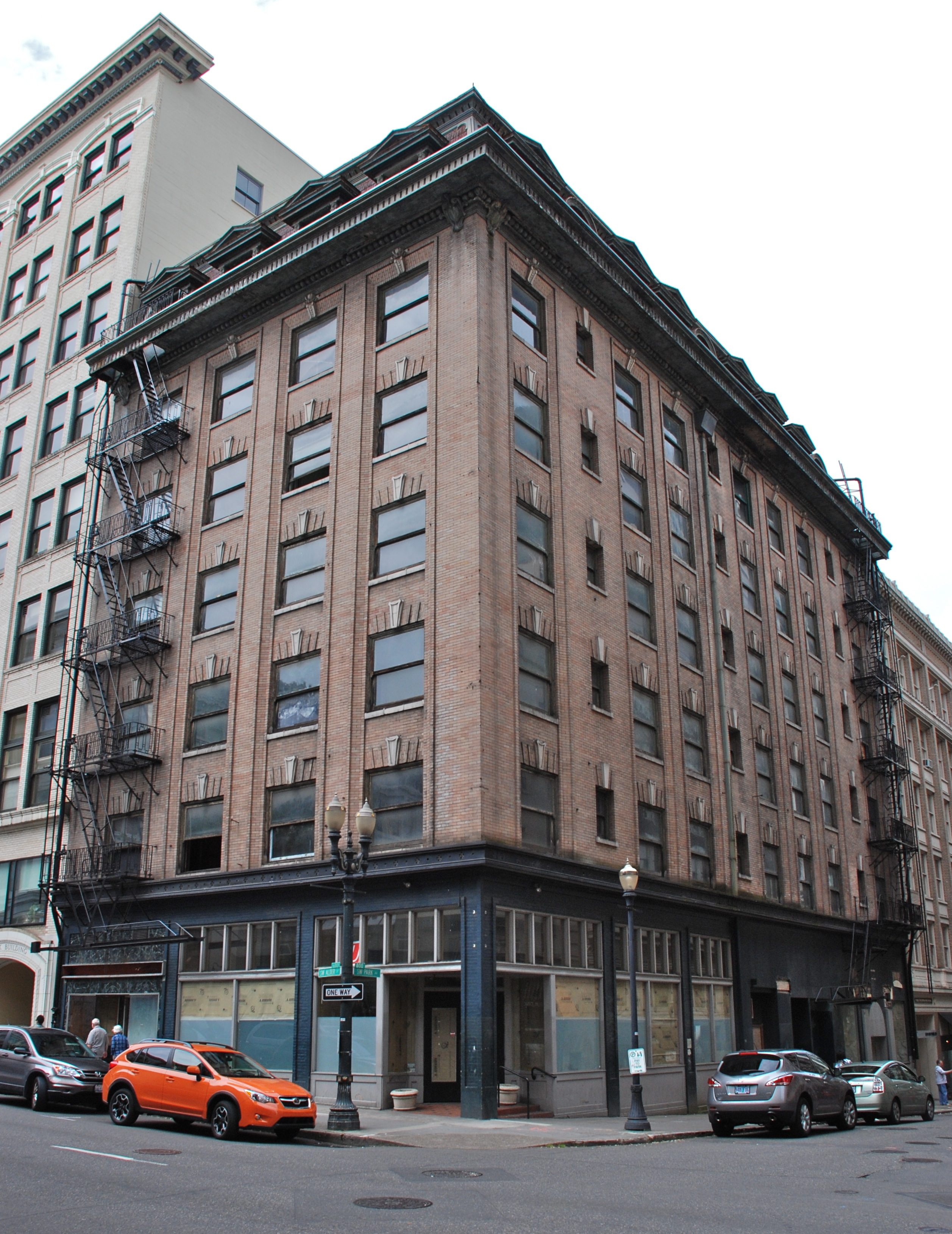 The Cornelius Hotel, a former hotel building in Portland, Oregon, was constructed in 1907–08 and is listed on the U.S. National Register of Historic Places (NRHP). It is mostly vacant at present. Partially visible at left is the Woodlark Building, also NRHP-listed.